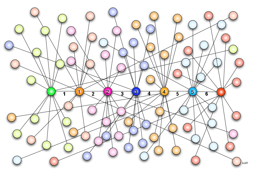 Six degrees of separation.